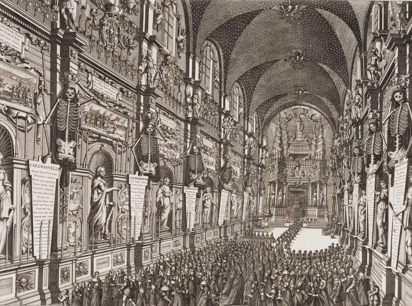 Funeral of Charles Emmanuel II of Savoy in 1675